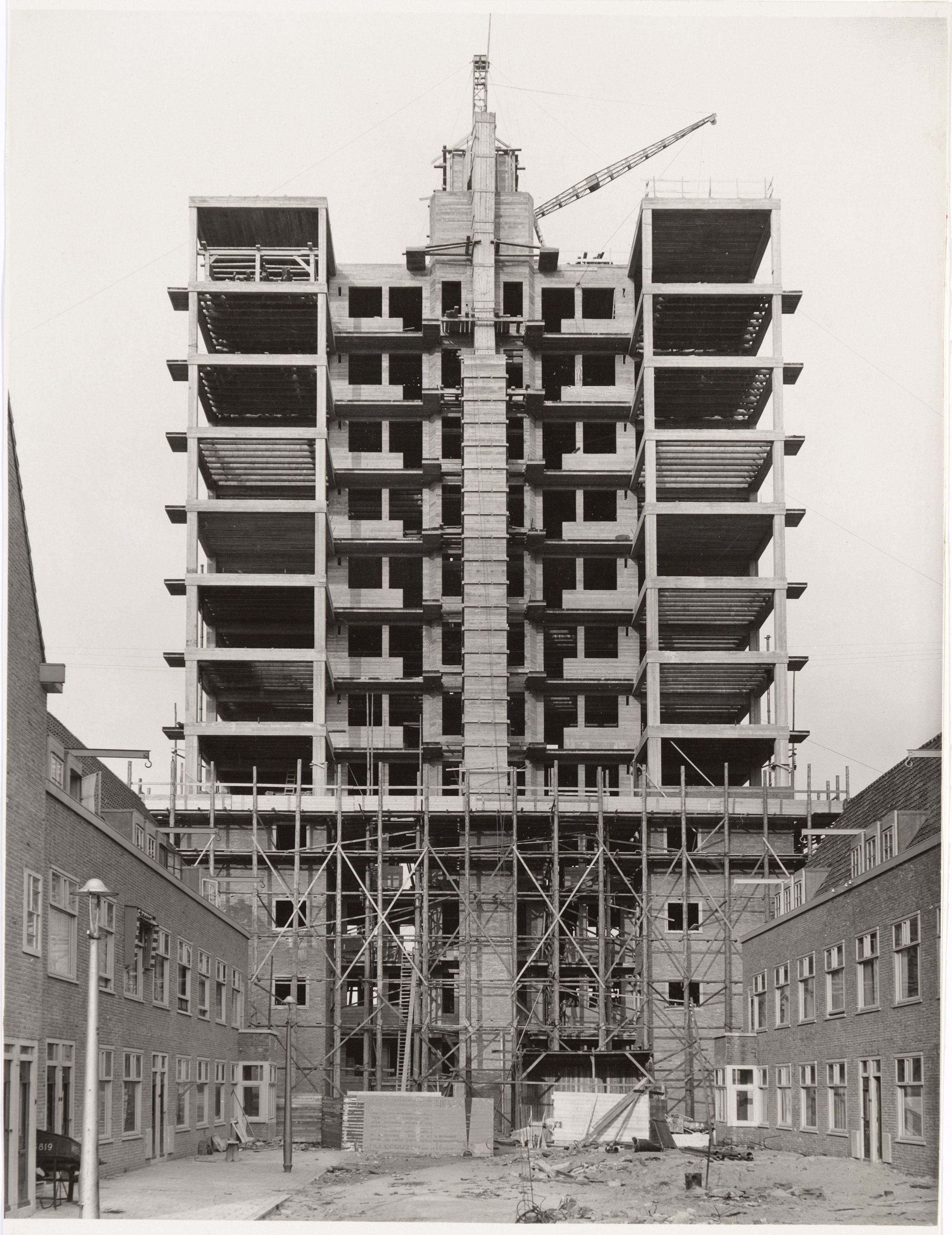 Jan van Dijk, Construction of De Wolkenkrabber, seen from the Merwedeplein in Amsterdam, around 1930.